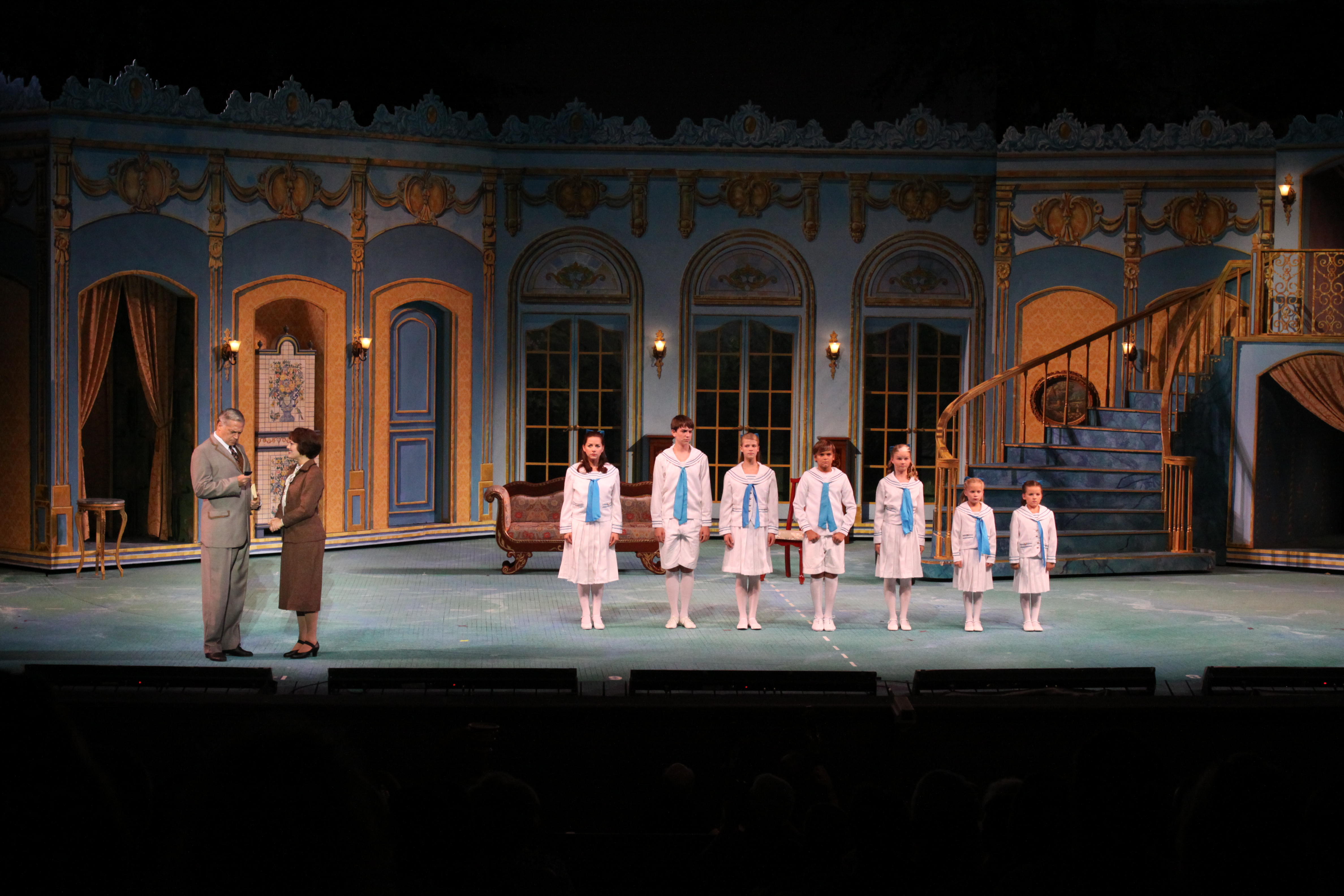 Sound of Music at The Muny in 2010